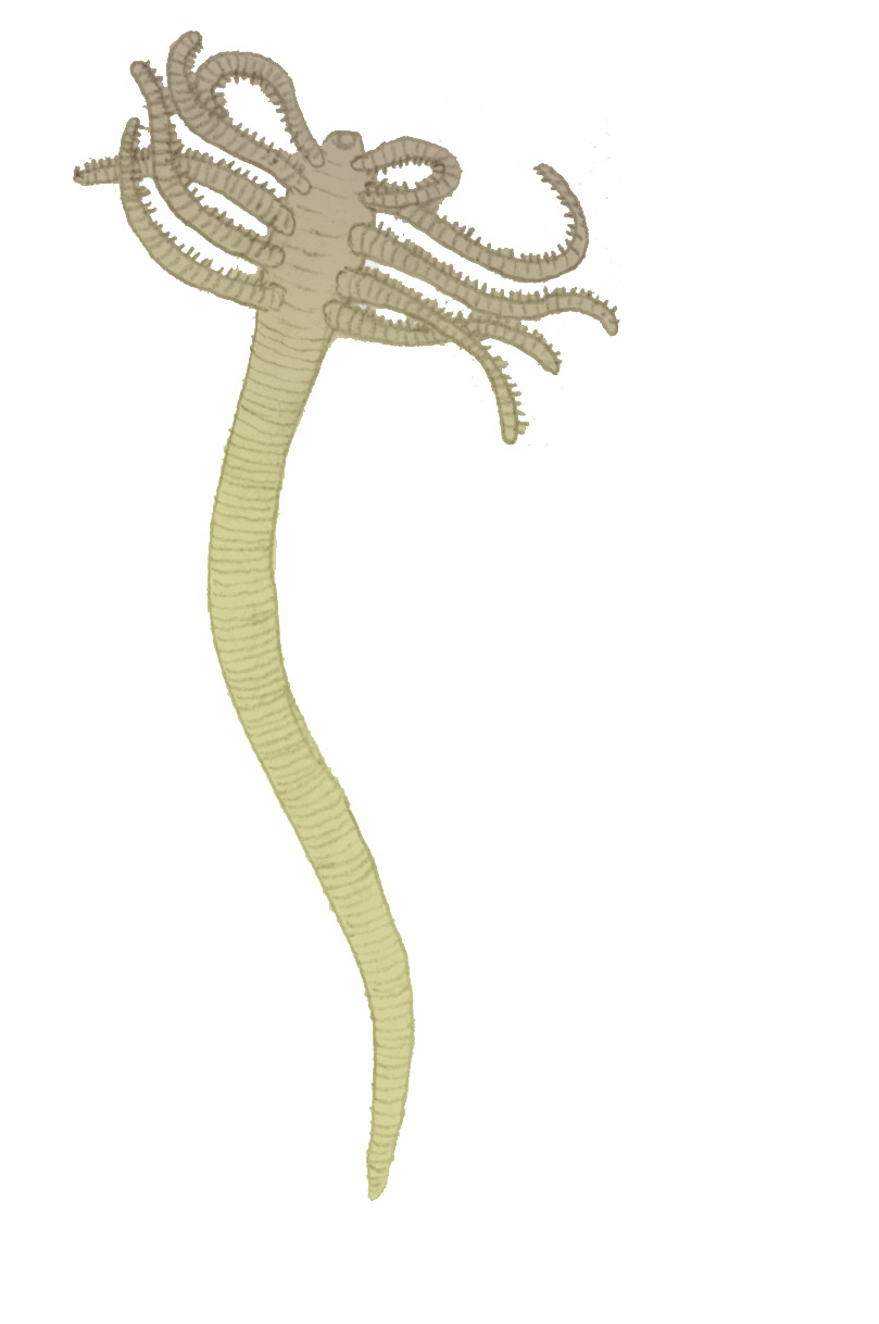 Reconstruction of Facivermis, an extinct animal